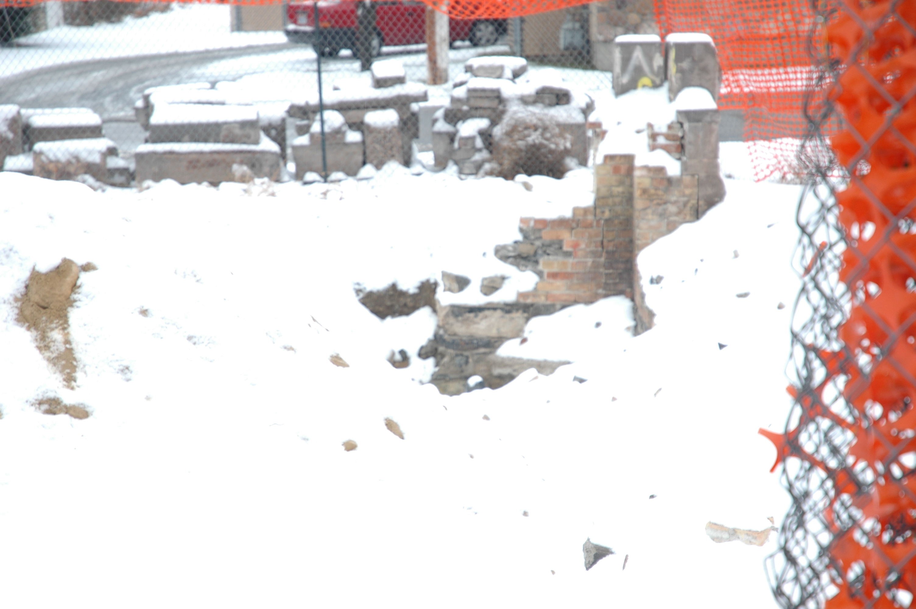 Former site of the Lehi Commercial and Savings Bank/Lehi Hospital, a historic building, now demolished, in Lehi, Utah, United States.